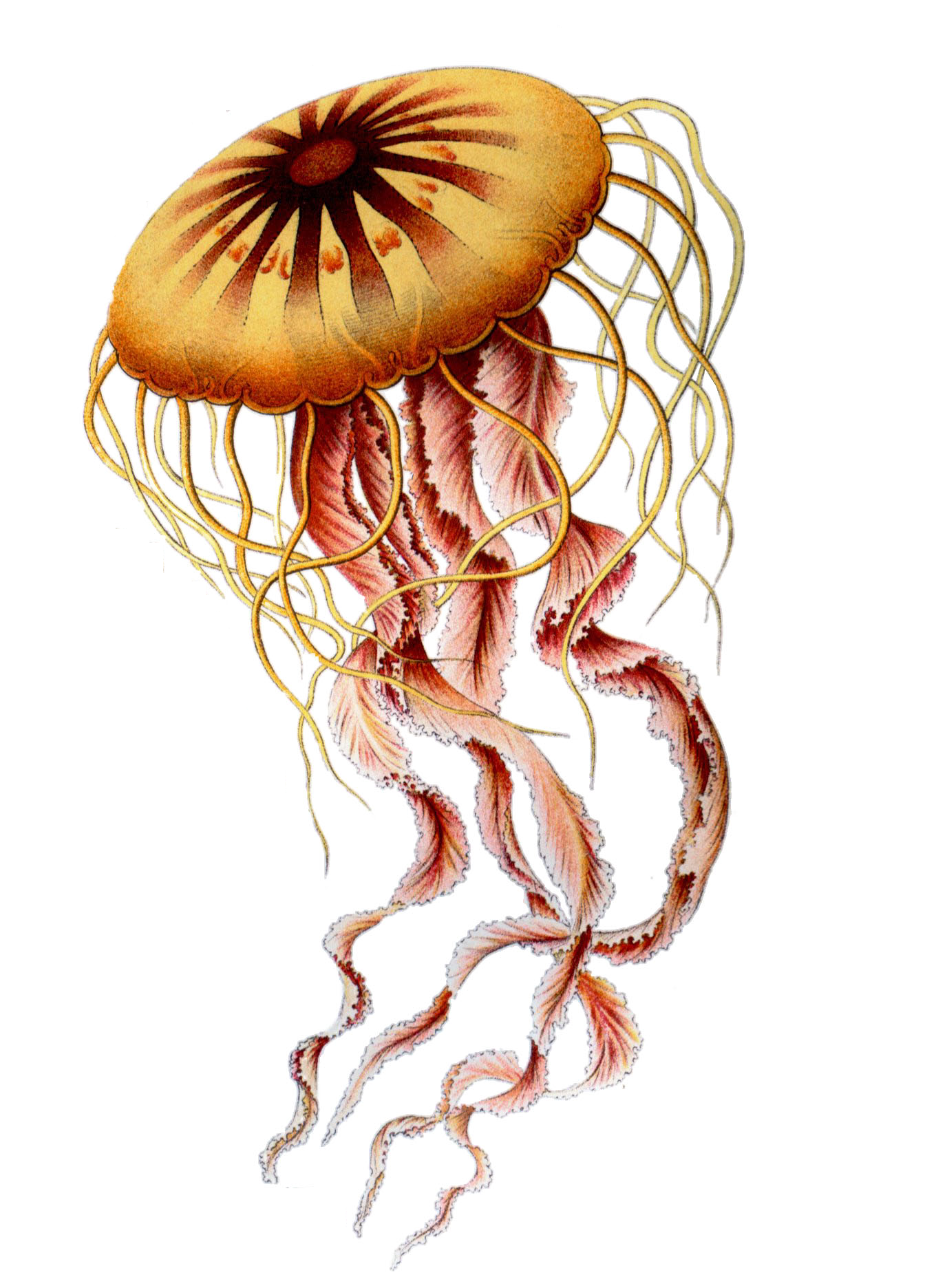 Haeckel named D. annasethe after his wife Anna Sethe, who died the year before Haeckel observed the organism.